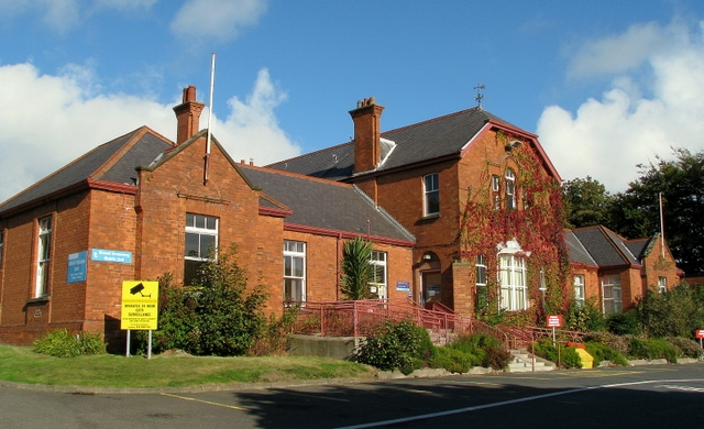 Bangor Hospital The original wing of Bangor Hospital, constructed 1909-10 to a design by architects Young & Mackenzie. Two later extensions, unseen here, complete the building. Closed to in-patients in 1996, it now operates as a local community hospital and minor injuries clinic.